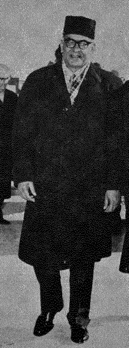 Malik Feroz Khan Noon, Prime Minister Pakistan, visiting Iran